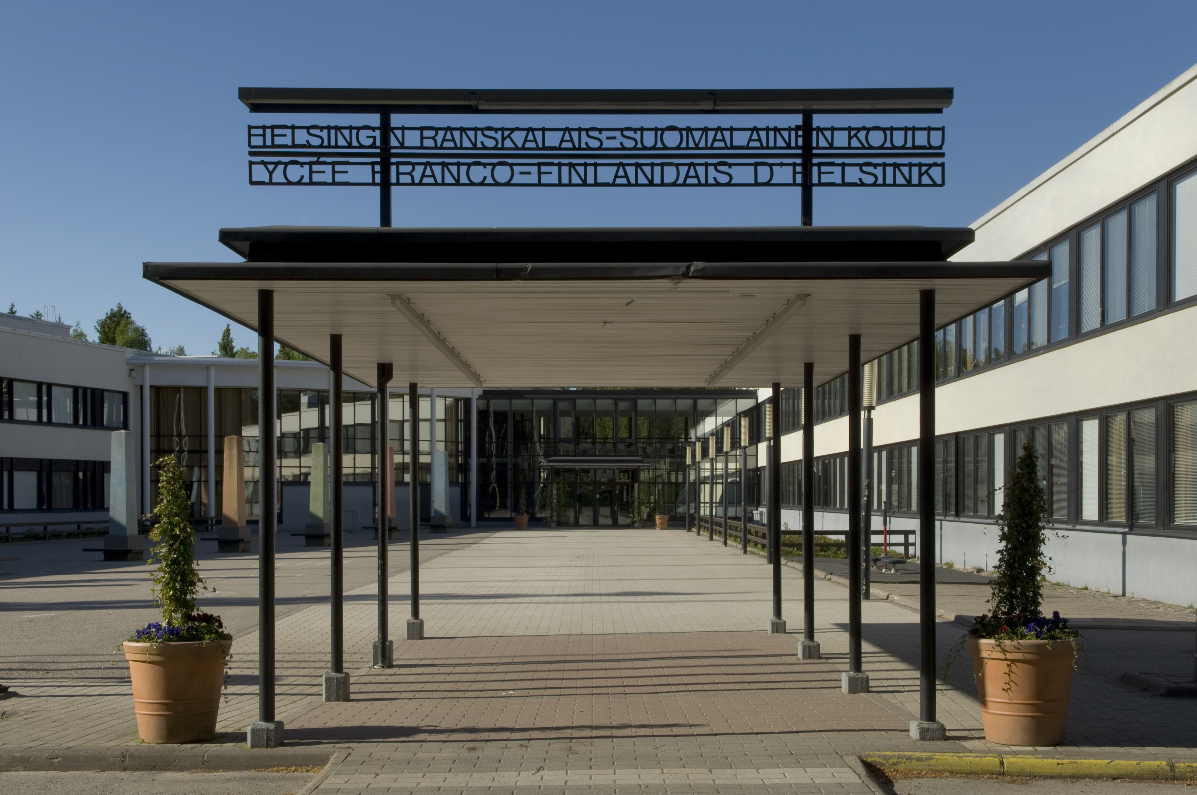 The front yard of the Franco-Finnish school in Munkkivuori, Helsinki, Finland.